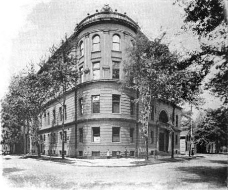 Harmonie Club Dertoit MI